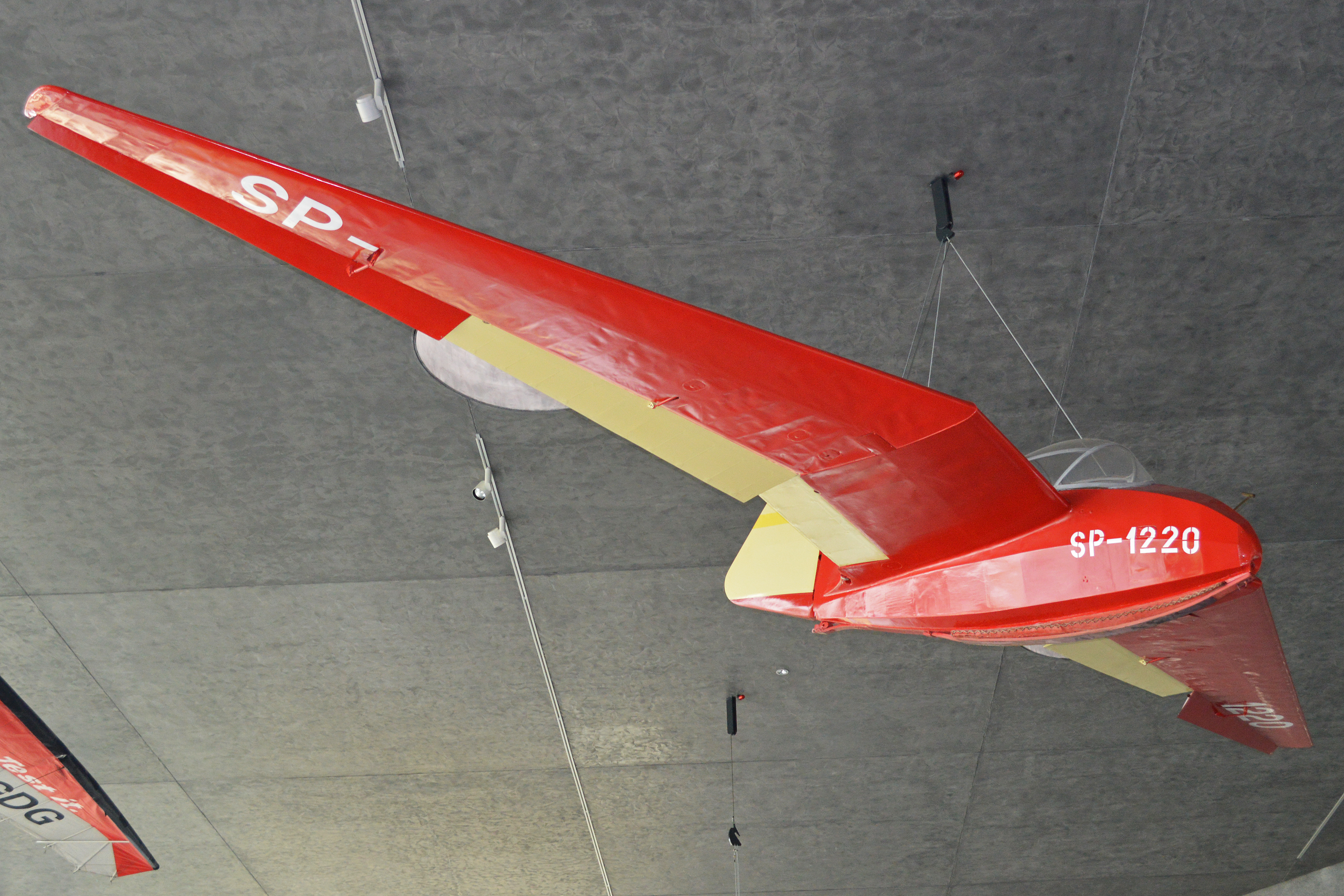 The following info is taken from the museum's website:- "A single seater experimental tailless, all-wooden glider of mid-wing configuration. A short fuselage houses an enclosed cockpit and is ended with the residual vertical stabiliser with the rudder of very big surface. The wings centre section is equipped with flaps, the external parts have divided elevons, which also play a role of the air brakes. To improve the cockpit visibility and the directional stability, a wings centre part features a characteristic sweep. This original shape of construction was a reason of giving a name Nietoperz (bat) to a glider. By the end of the 1940s, in the Gliding Institute in Bielsko-Biała, a team led by engineers Władysław Nowakowski and Justyn Sandauer started the initial works on the glider, aiming at build of the cheap experimental construction, allowing for testing the unique tail-less configuration. The first flight of the one and only example of the "Nietoperz" took place in January 1951, at the Katowice airfield. The in-flight tests of the "Nietoperz" were carried out at the Gliding Institute in Bielsko-Biała until 1959. The three variants of steering were tested. The most interested were the two variants of the so called drug rudder-spoiler control, done by opening of the external elevons, acting as an aerodynamic brakes. The gliders then, flew with removed or blocked vertical rudder. The similar steering system is applied on the American bomber, the Northrop B-2 "Spirit". The "Nietoperz" being a machine difficult to fly, served only for the in-flight tests. After concluding it, the glider came to the Polish Aviation Museum in 1964." It is now on display suspended in the new entrance building at the Muzeum Lotnictwa Polskiego Krakow, Poland. 23-08-2013